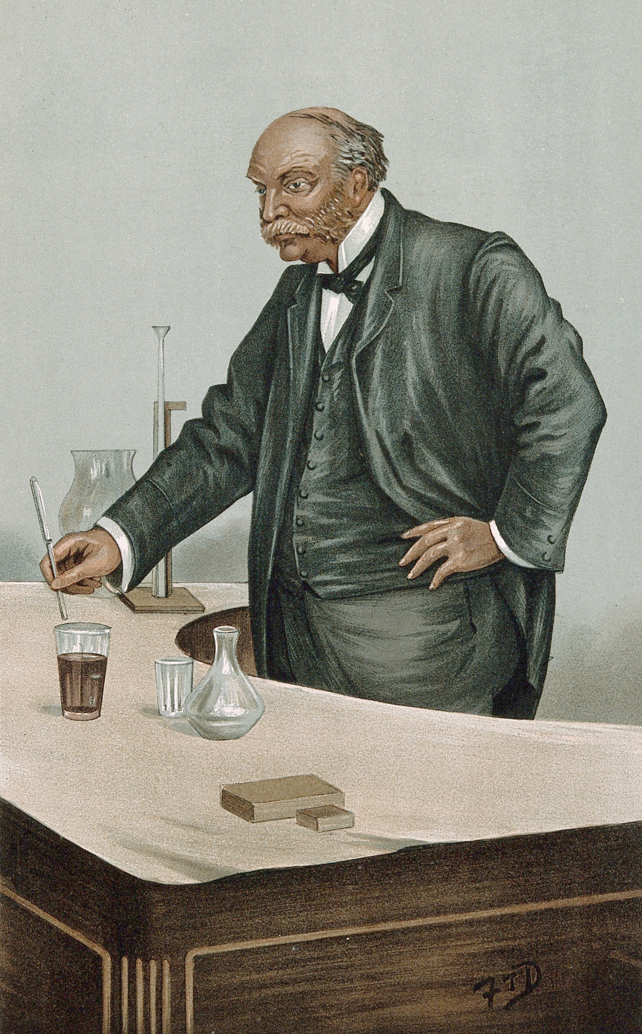 Caricature of John Strutt, 3rd Baron Rayleigh. Caption read "Argon".